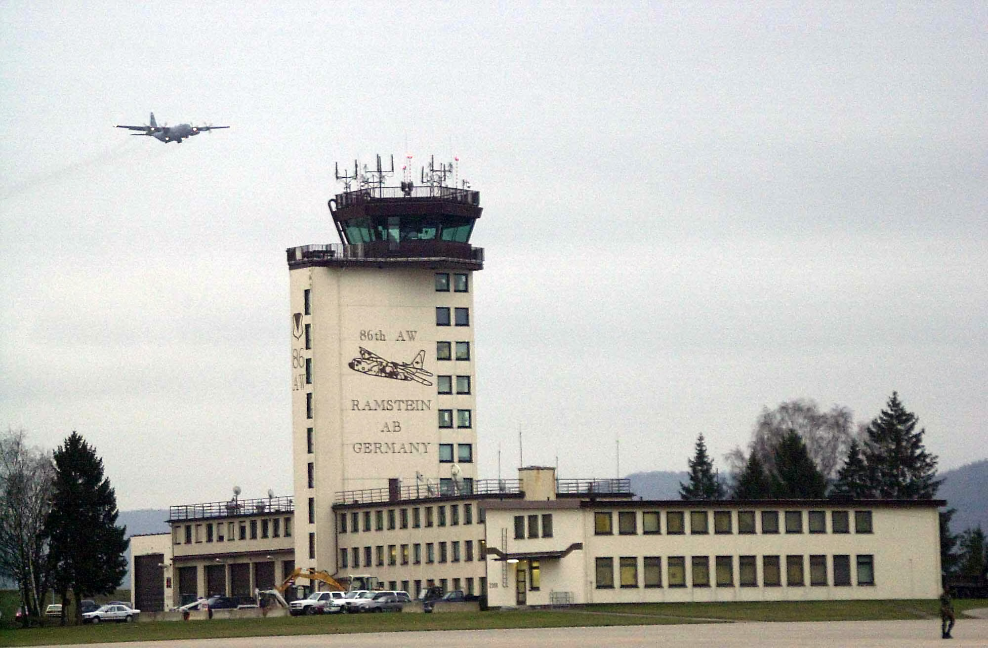 US Air Force (USAF) C-130 Hercules cargo aircraft assigned to Ramstein Air Base (AB), Germany, flies over the Ramstein AB tower, before retiring to the Aerospace Maintenance and Regeneration Center (AMARC) or "bone yard" at Davis-Monthan Air Force Base (AFB), Arizona.